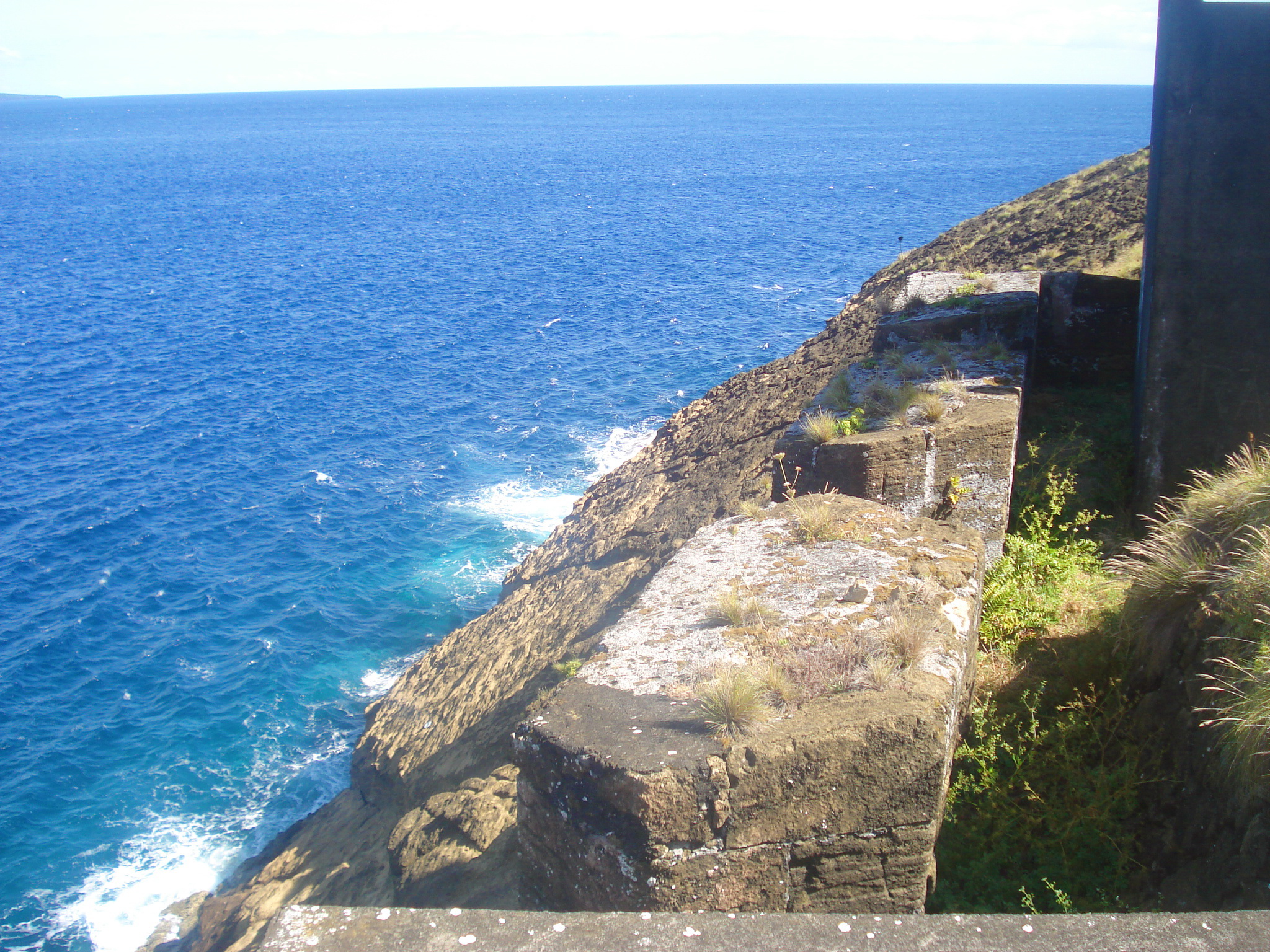 The battlements of the Fort of Greta, along the cliff edge of the Guia cone, civil parish of Angústias, municipality of Horta (Azores), Portugal